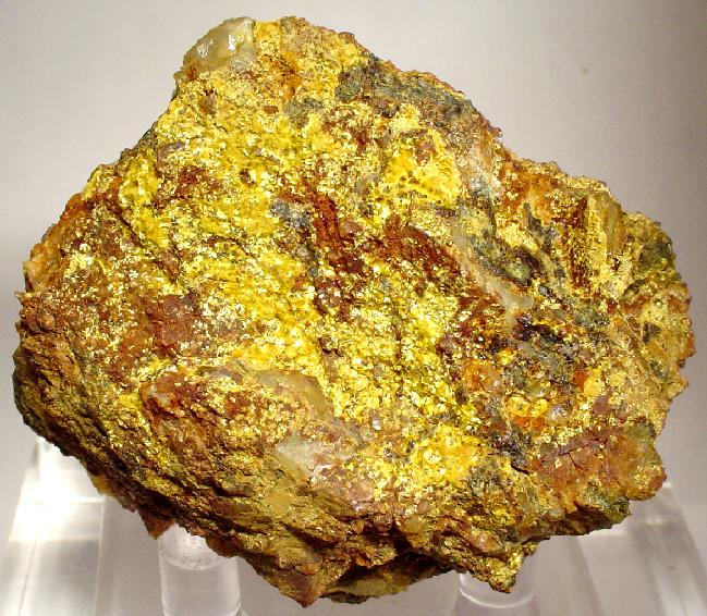 Cacoxenite Locality: Fort Lismeenagh, Shanagolden, County Limerick, Ireland (Locality at ) A VERY RICHLY covered specimen for the locality of golden-yellow rosettes of cacoxenite on quartz-pebble conglomerate from Ireland. Very fine material from this uncommon locality. 6.2 x 5.4 x 4.1 cm